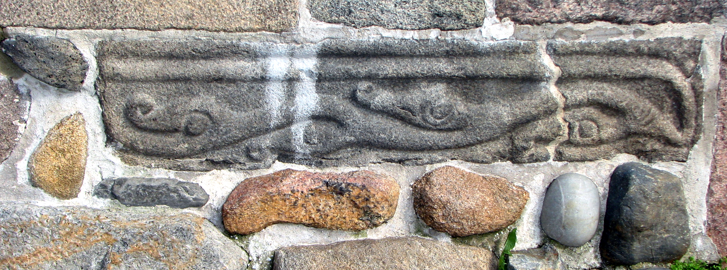 Vedersø Church in Denmark Photo by Author Jens Christensen, Denmark